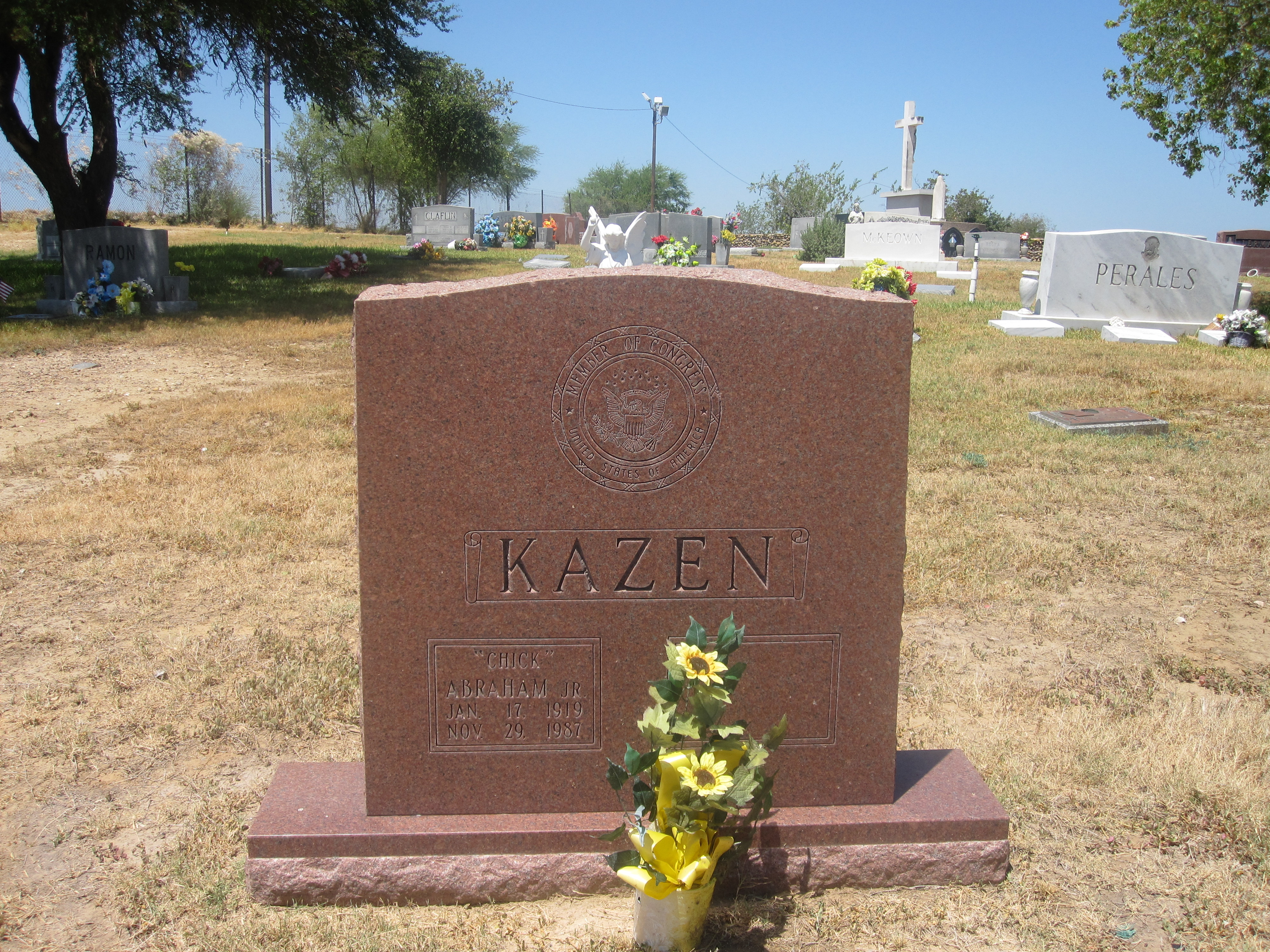 I took photo on July 15, 2009, in Laredo, TX, with a Canon SD 780.Billy Hathorn (talk) 22:38, 15 July 2009 (UTC)